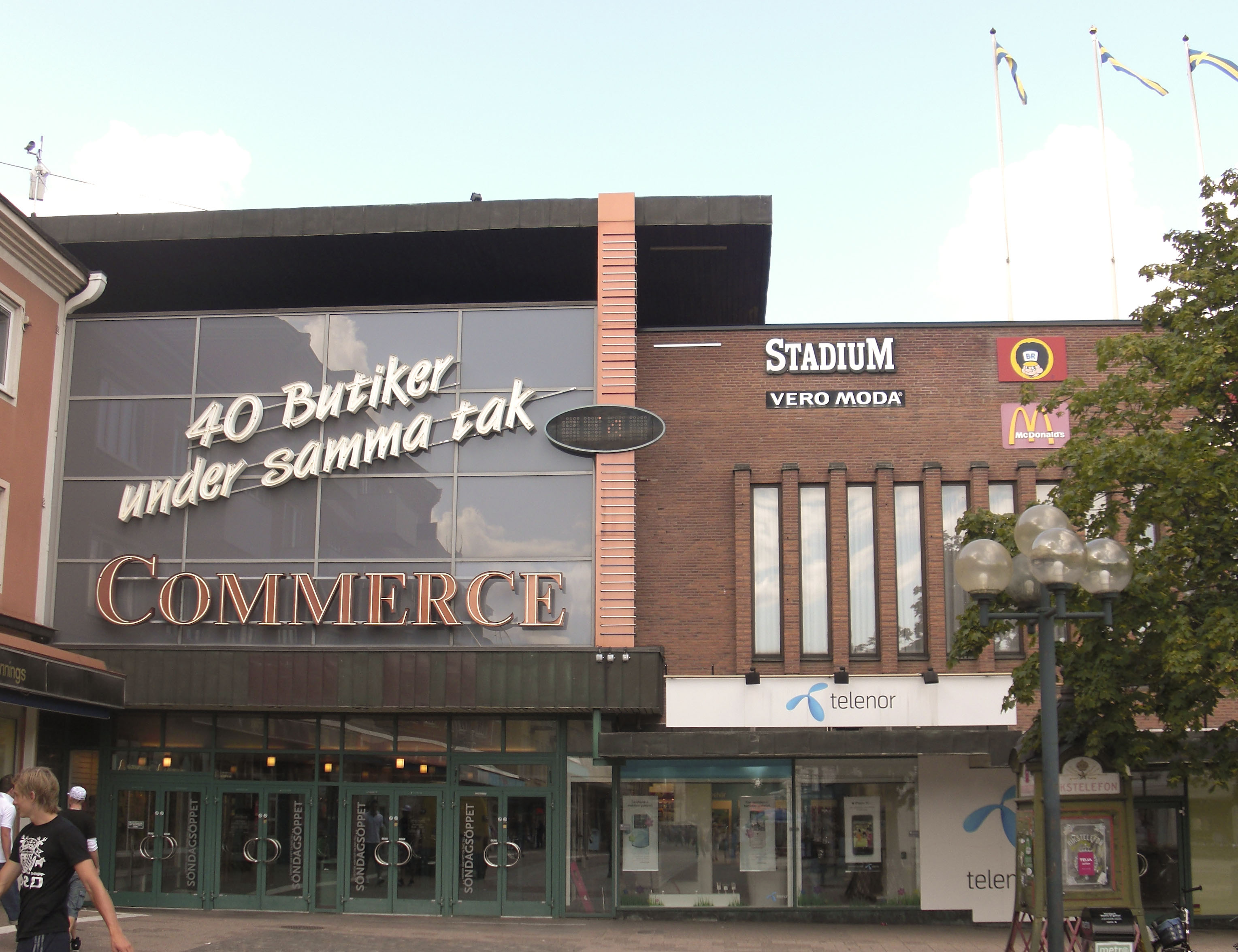 The main entrance for the shoping center "Commerce" in Skövde, Sweden.